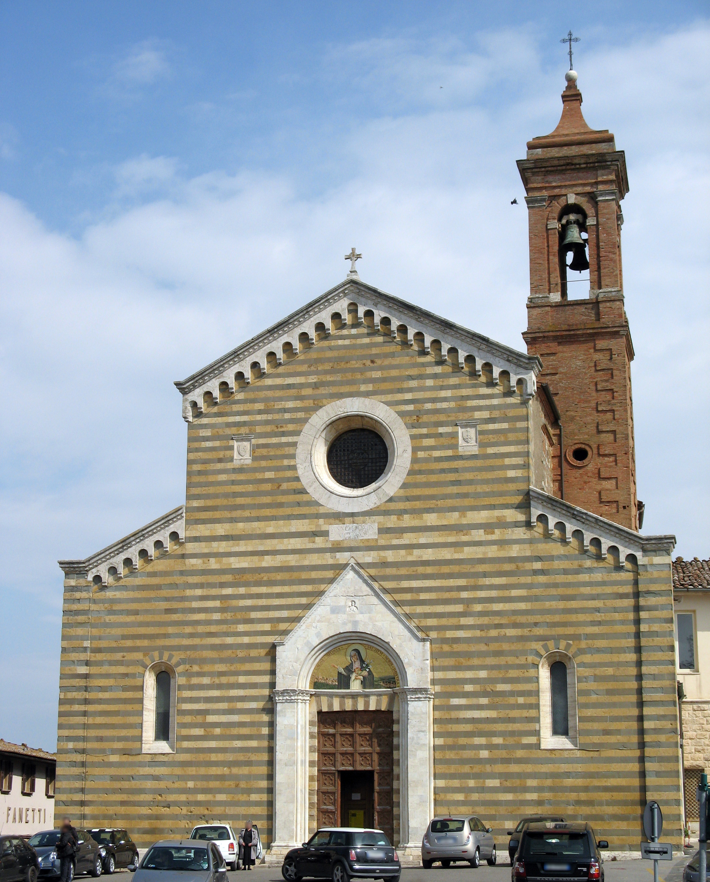 Church of Sant'Agnese in Montepulciano